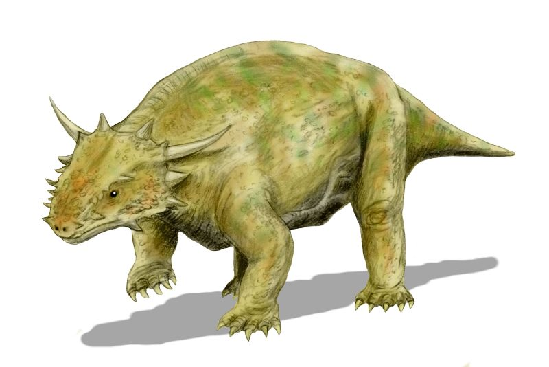 Elginia mirabilis, a pareiasaur from the Late Permian of Scotland, pencil drawing